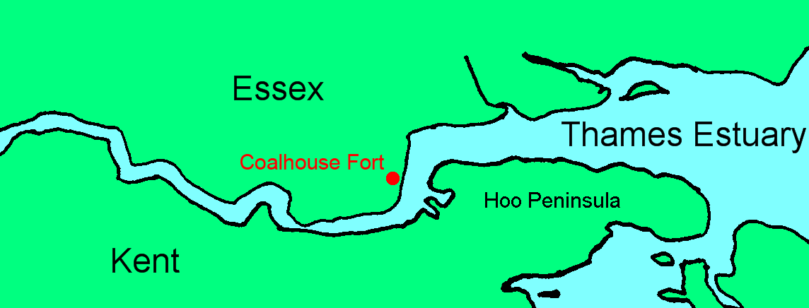 Map showing location of Coalhouse Fort in the Thames Estuary